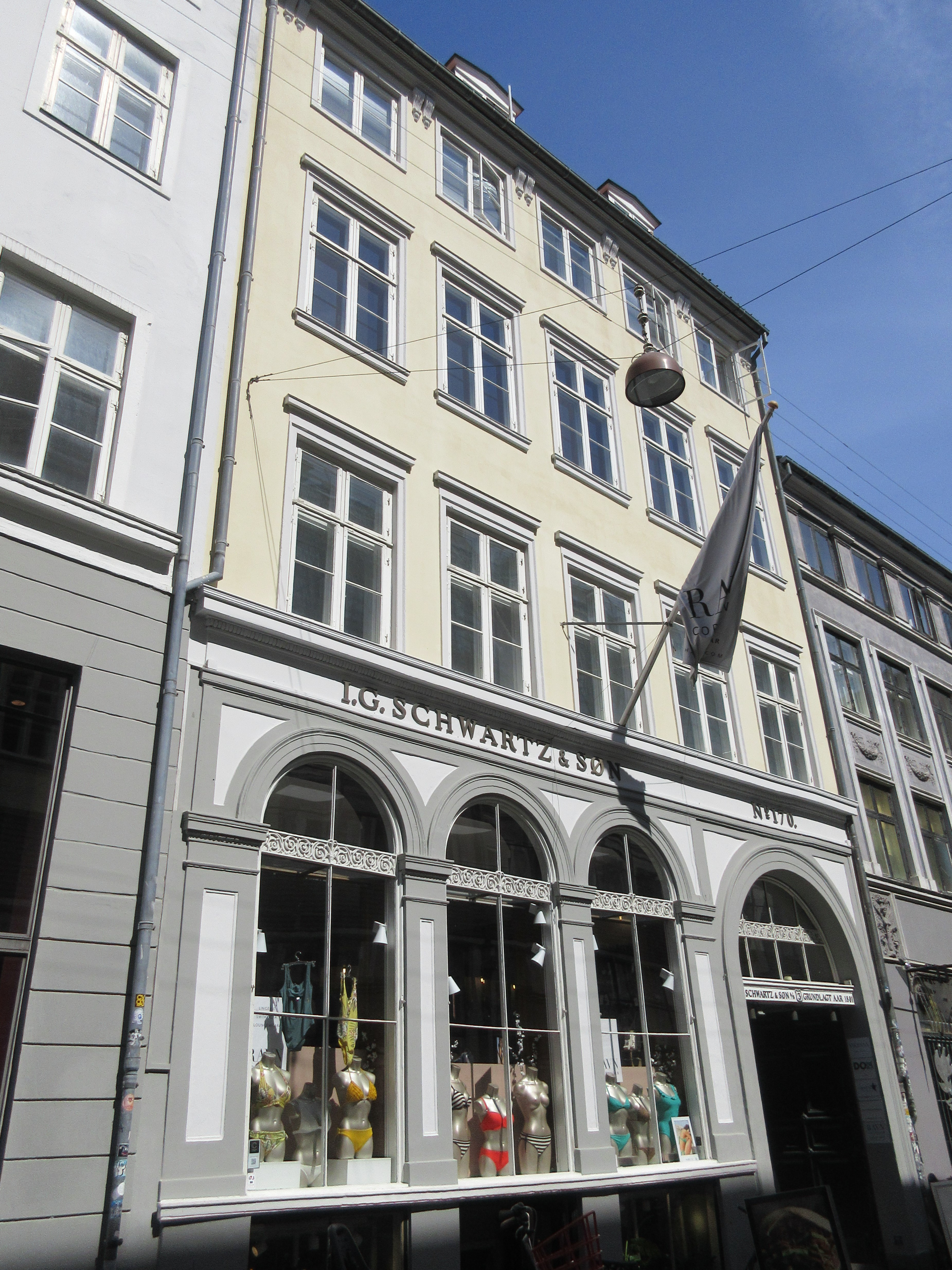 Sværtegade 3 in Copenhagen